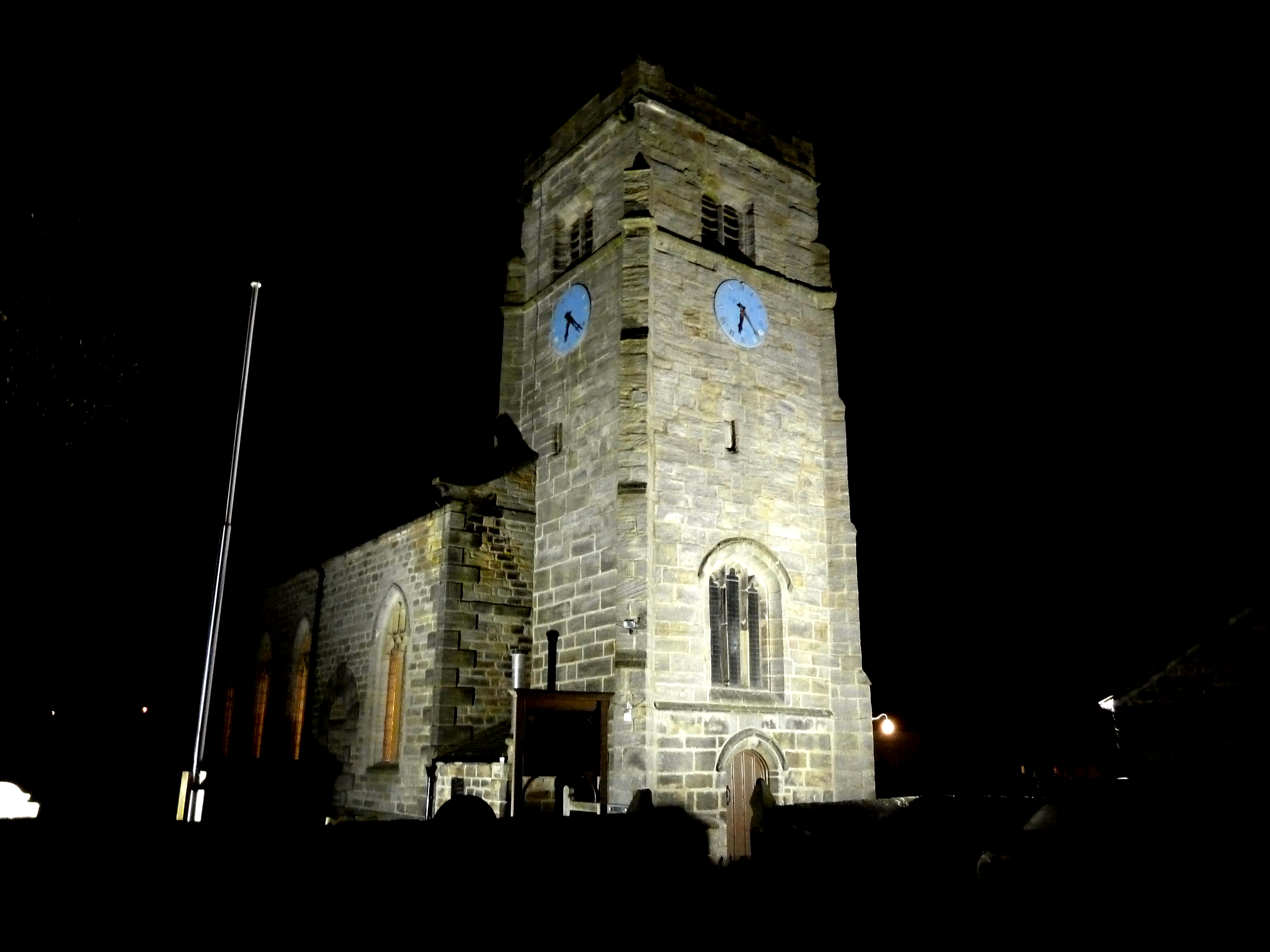 St Roberts Church, Pannal, North Yorkshire, England, floodlit.